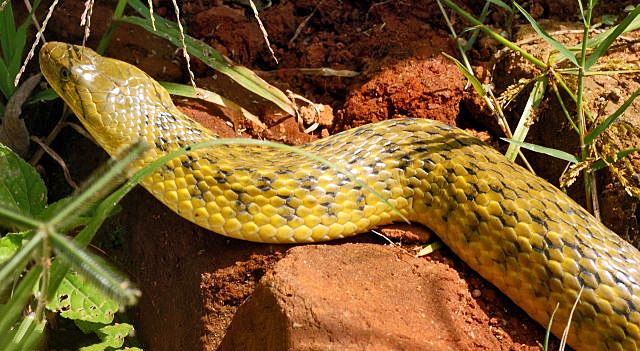 Xenochrophis piscator, Bannerghatta, India